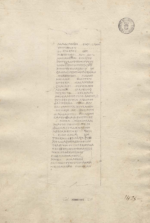 De poem. 5 col. 24N, drawn by Giuseppe Casanova, ca. 1807